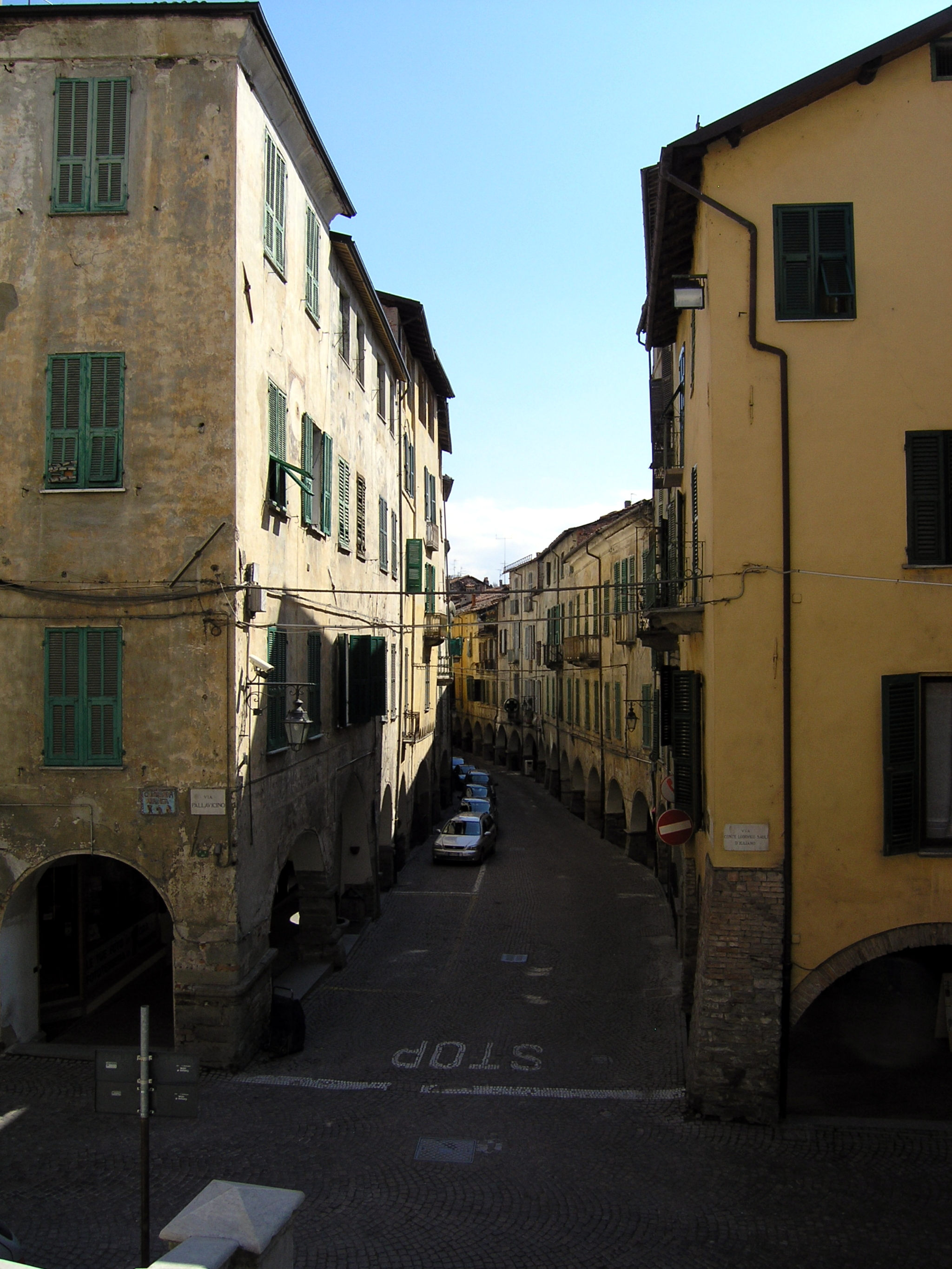 Picture of the main street of the hystorical center of Ceva (Italy)